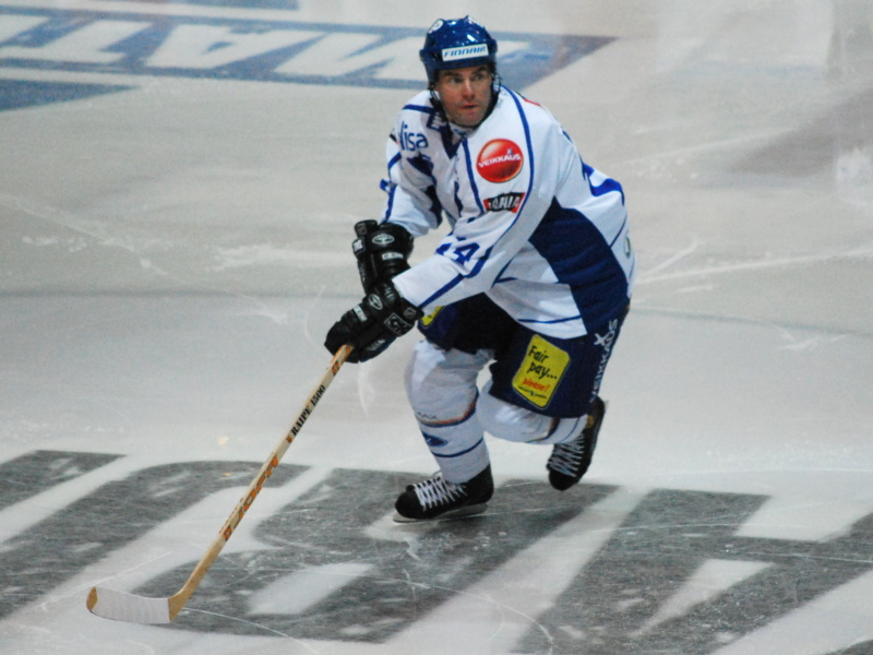 Raimo Helminen's last game in Finnish national team. Tampere.